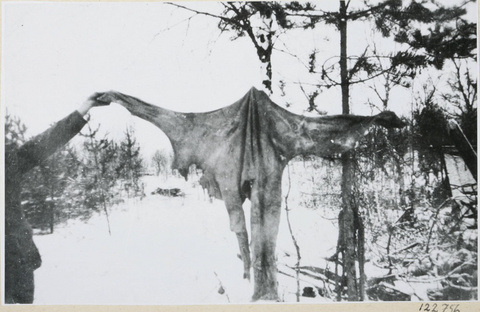 Finnish soldiers displaying the skins of Soviet soldiers near Maaselkä, on the strand of lake Seesjärvi during Continuation War on the 15th of December in 1942. Original caption: "An enemy recon patrol that was cut out of food supplies had butchered a few members of their own patrol group, and had eaten most of them." ("Vihollisen vakoilupartio, jäätyään muonalähetyksiä vaille, oli teurastanut pari saman partion jäsentä ja syönyt niistä suurimman osan.")